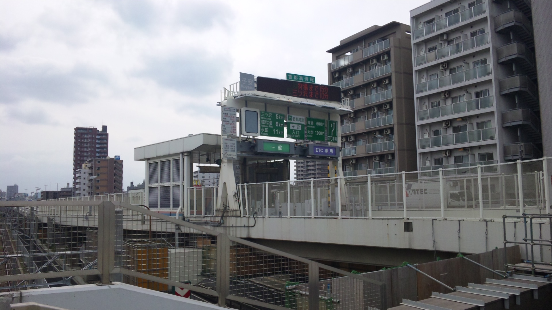 koyasu IC